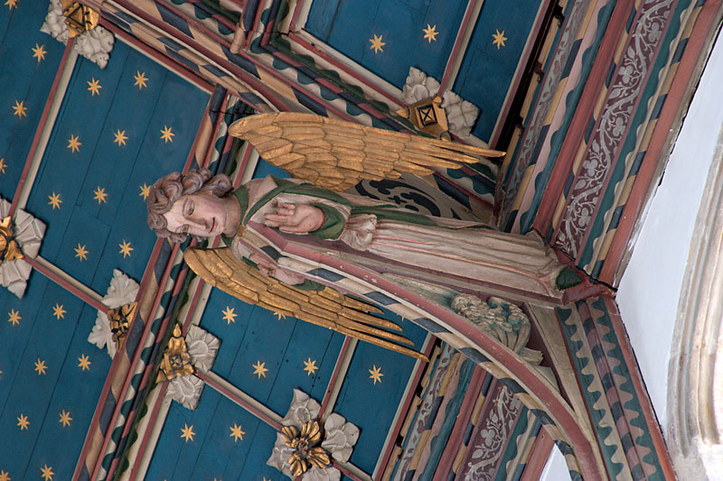 Detail view of roof, St. Edmund's Church, Southwold, Suffolk, U.K.